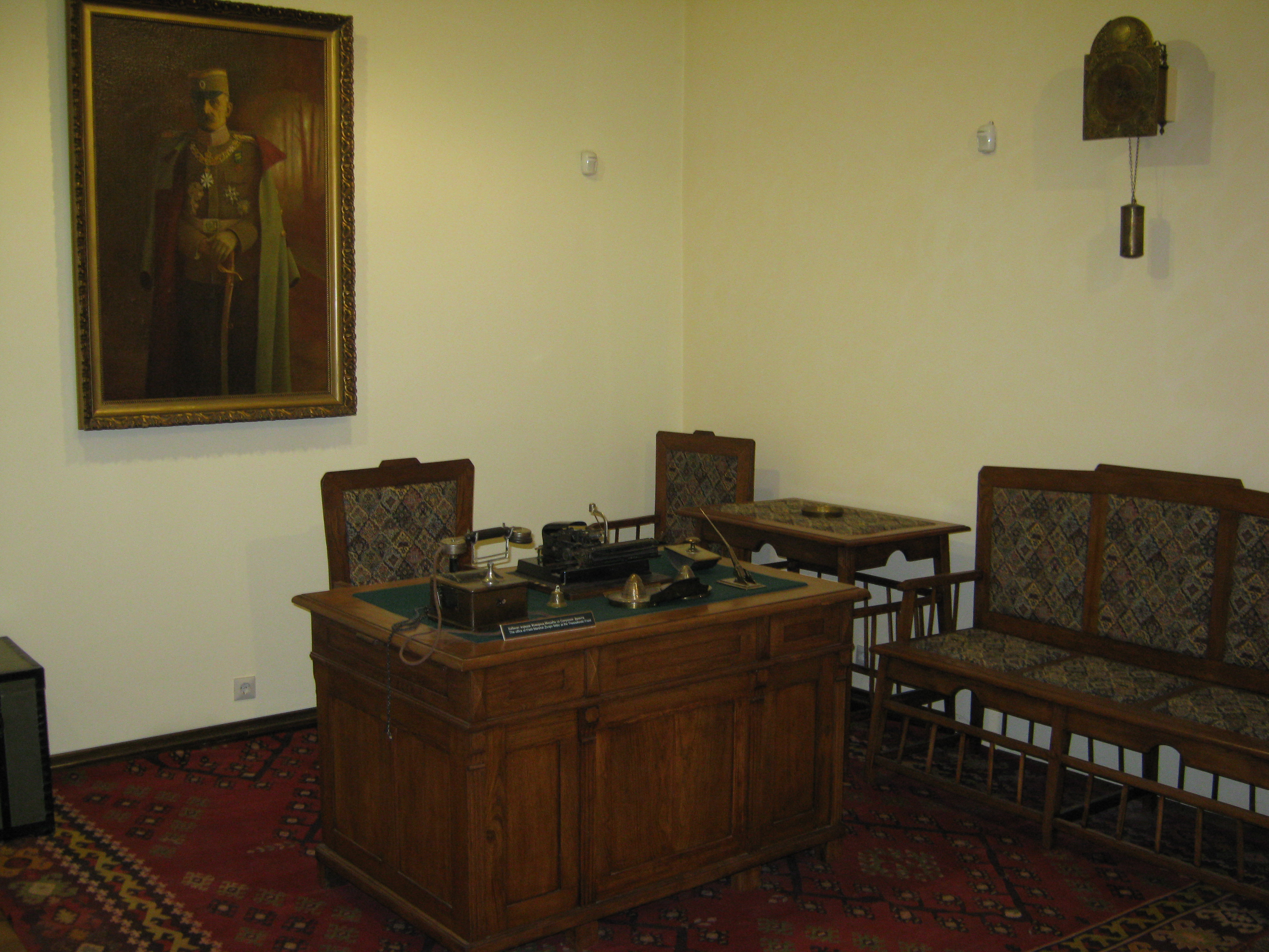 Cabinet of Živojin Mišić from Salonika front